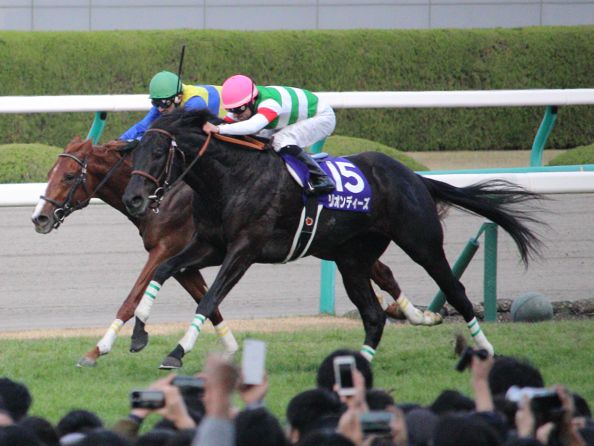 Leontes (Racehorse of Japan).